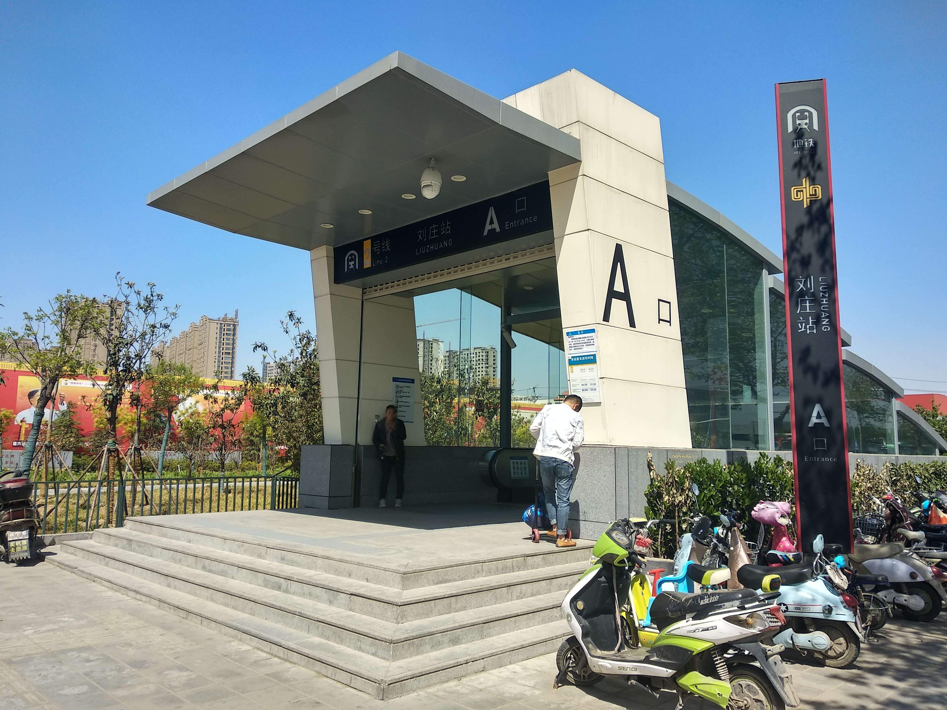 This station has 5 entrances, 3 of which are now in operation (respectively A, D1 and D2). Entrances E and F are not opened yet.